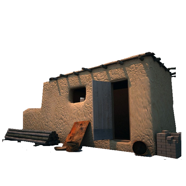 The caldeean cananite house from Midle East position1